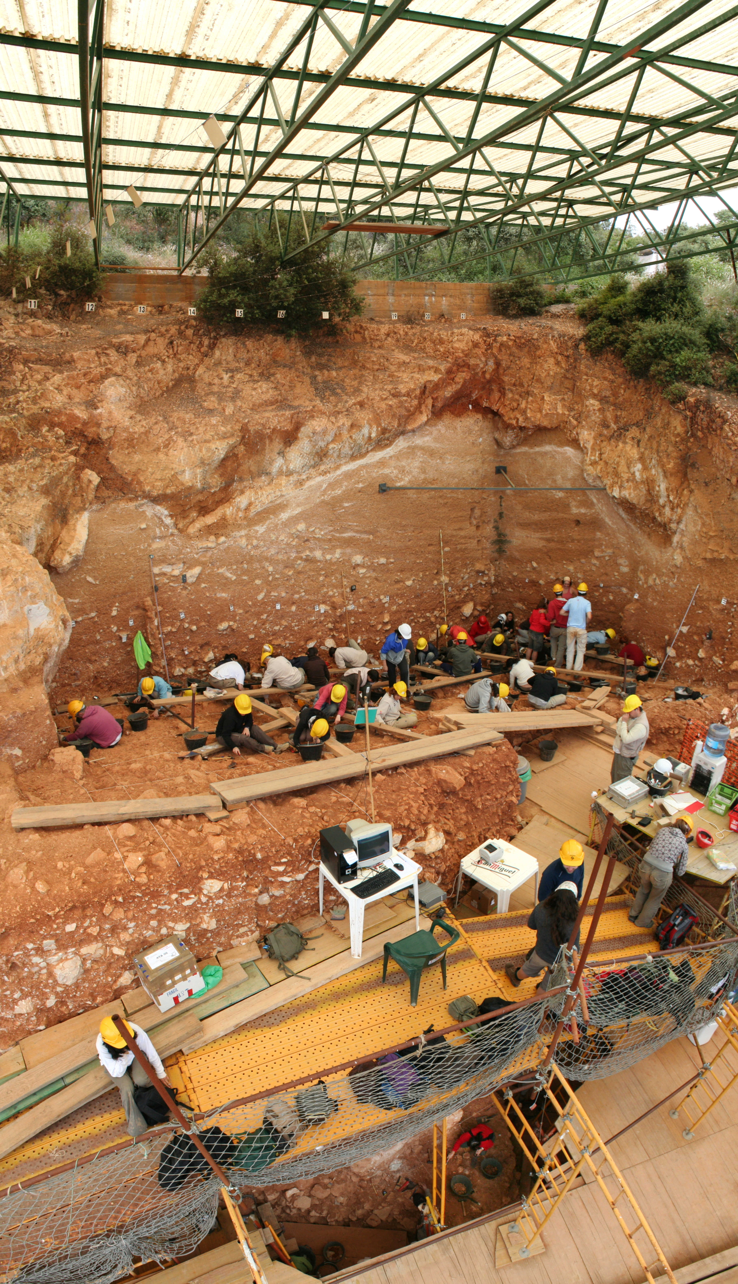 Excavations at the site of Gran Dolina, in Atapuerca (Spain), during 2008. Panoramic photography formed using 3 individual photographies with Hugin software. TD-10 archaeological level is being excavated where the most of the people are. It is a Homo heidelbergensis camp. Under the plank, we can observe a woman with red sweatshirt excavating TD-6 archaeological level, where were found the first remains of Homo antecessor.